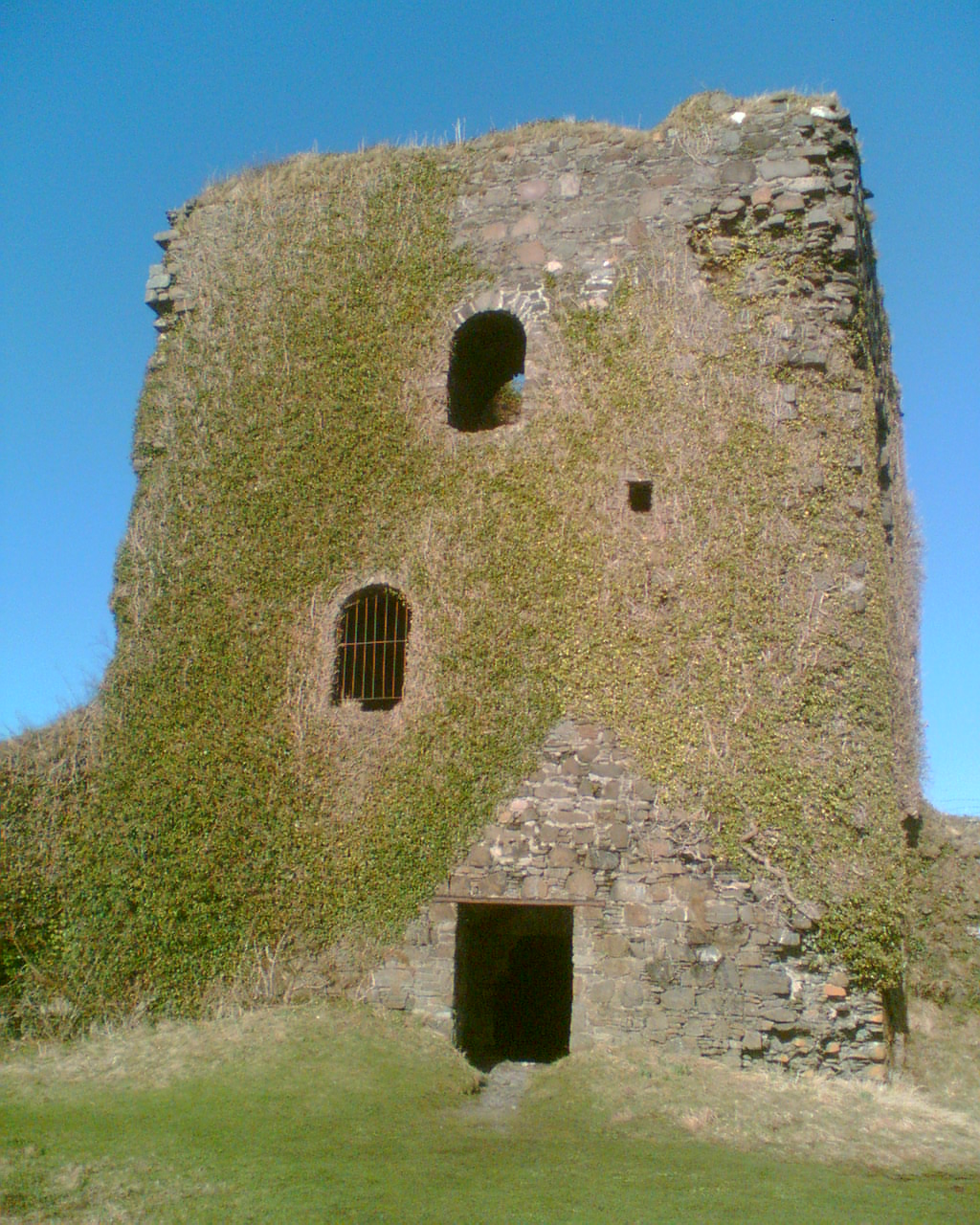 Picture taken February 2007